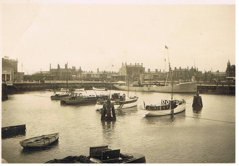 Picture of Lowestoft Harbor.